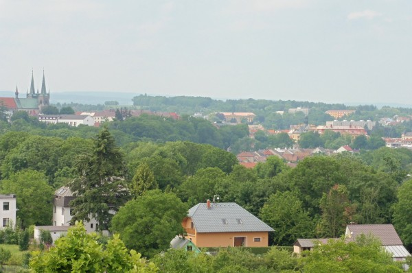 Chrudim